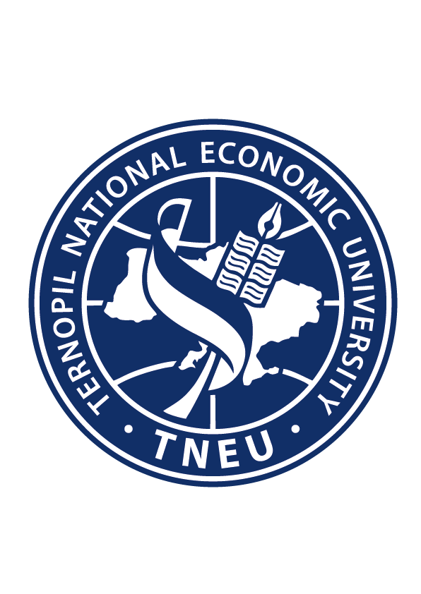 Logo of Ternopil National Economic University